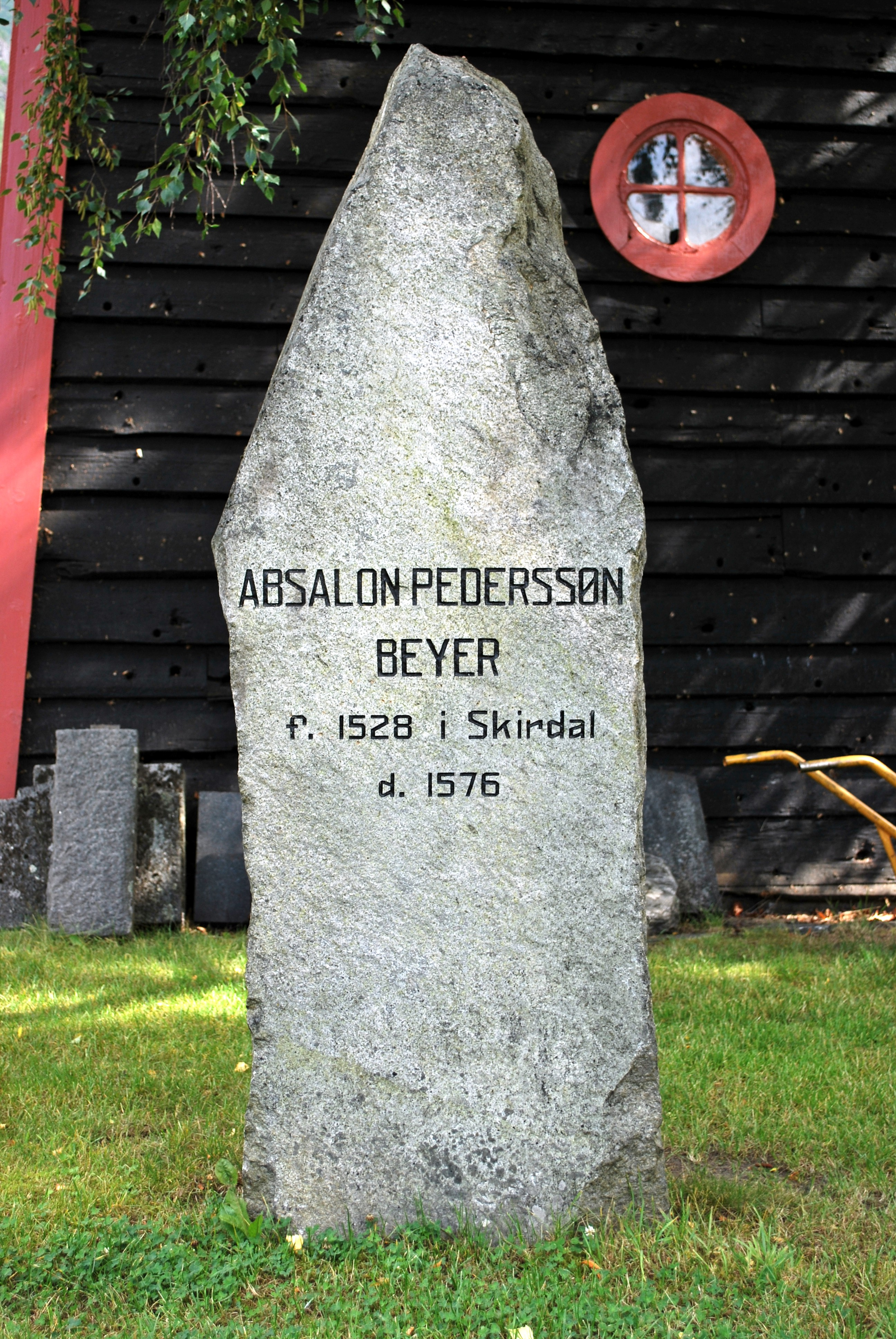 Stone commemorating Absalon Pedersson Beyer, Norwegian clergyman, author and lecturer, by Vangen kirke in Aurland, Norway, 26 July 2009.